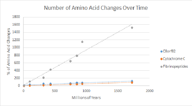 A graph generated using excel by calculating the percent of amino acid changes over time of C8orf82 and comparing that percent of changes to that of cythochrome C and fibrinopeptides. Data was taken from the ortholog table.